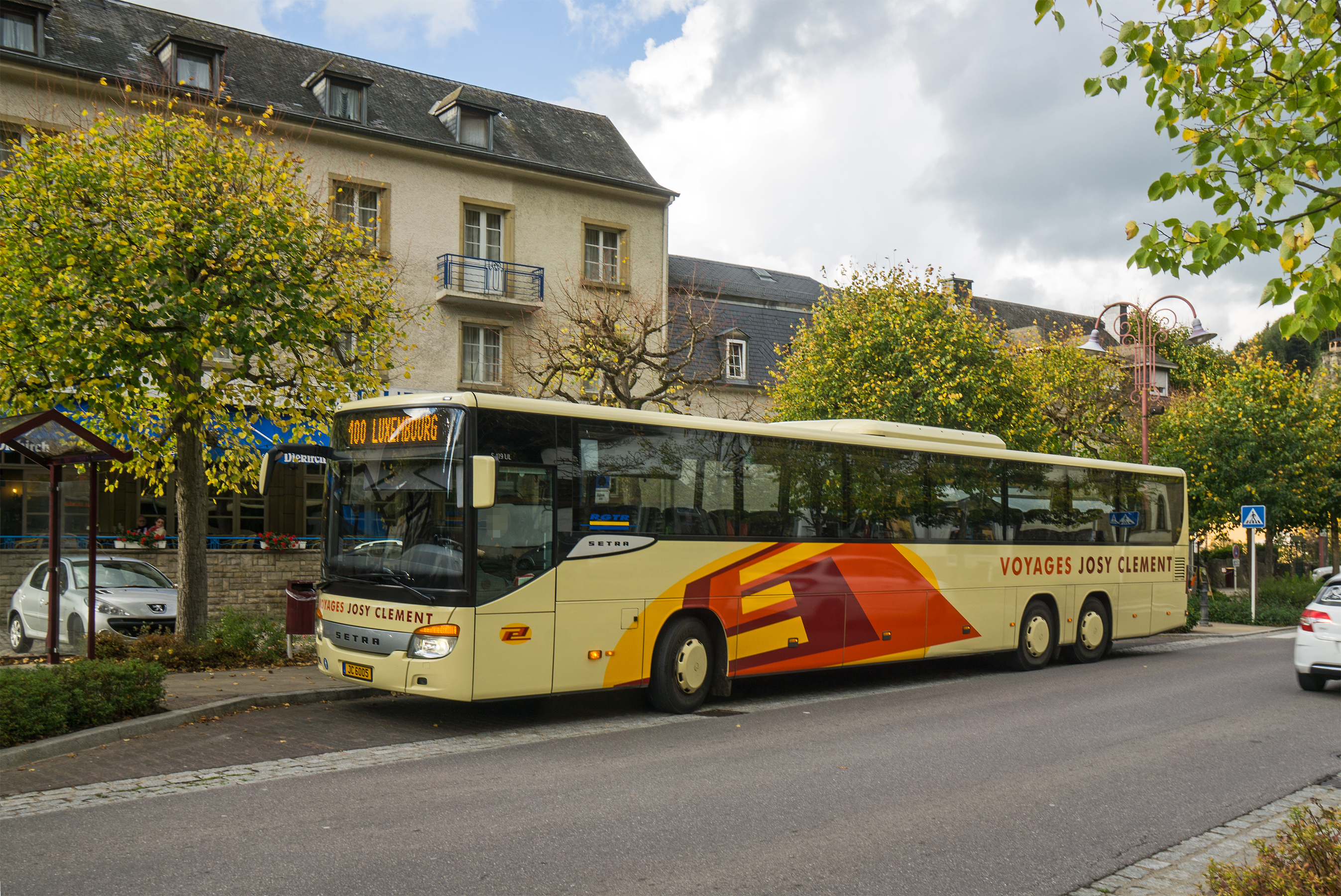 Bus of Voyages Josy Clement in Larochette, rue de Medernach